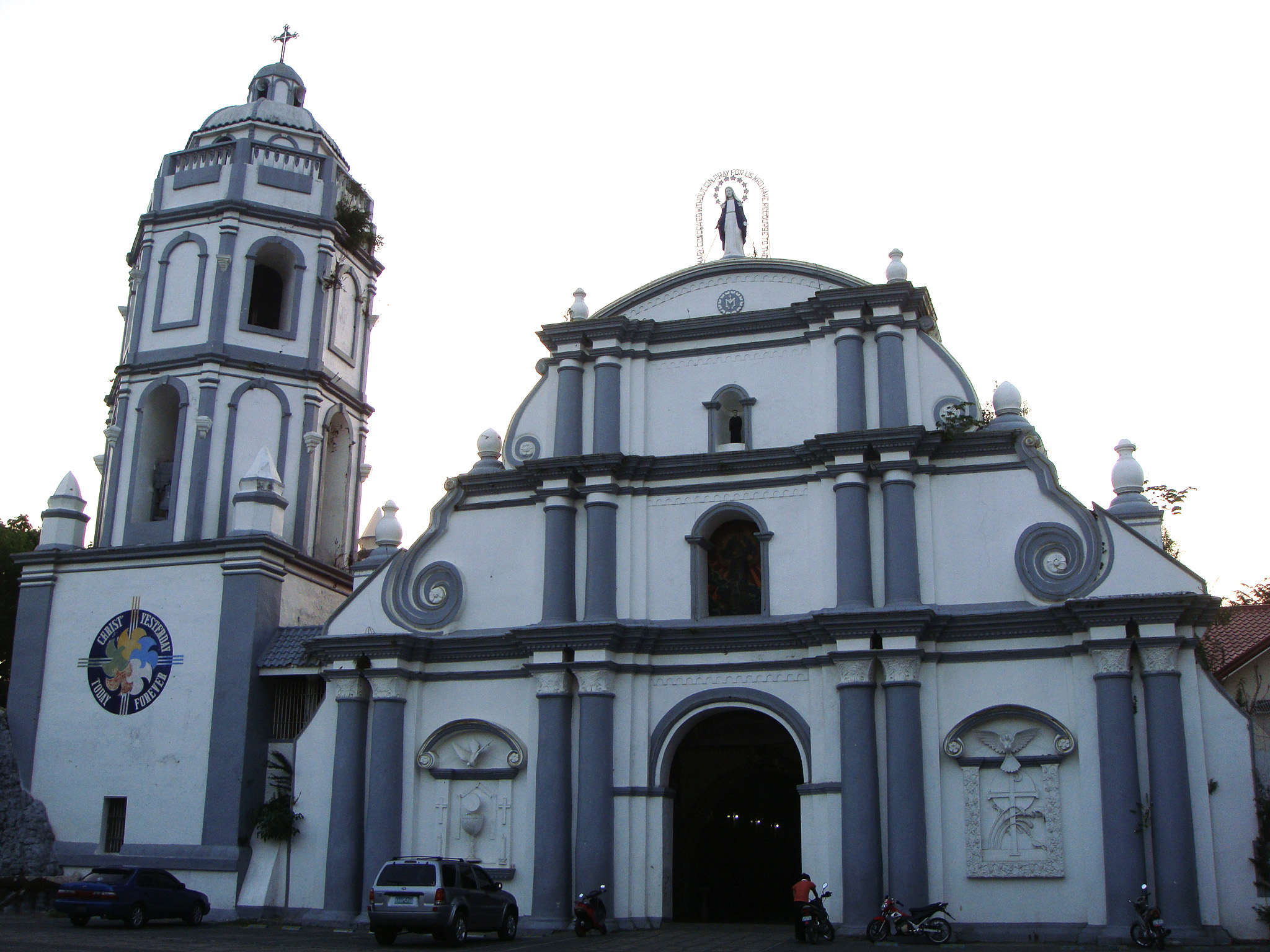 Candon church, Ilocos Sur. Hispanic colonial Baroque architecture, in the Philippines